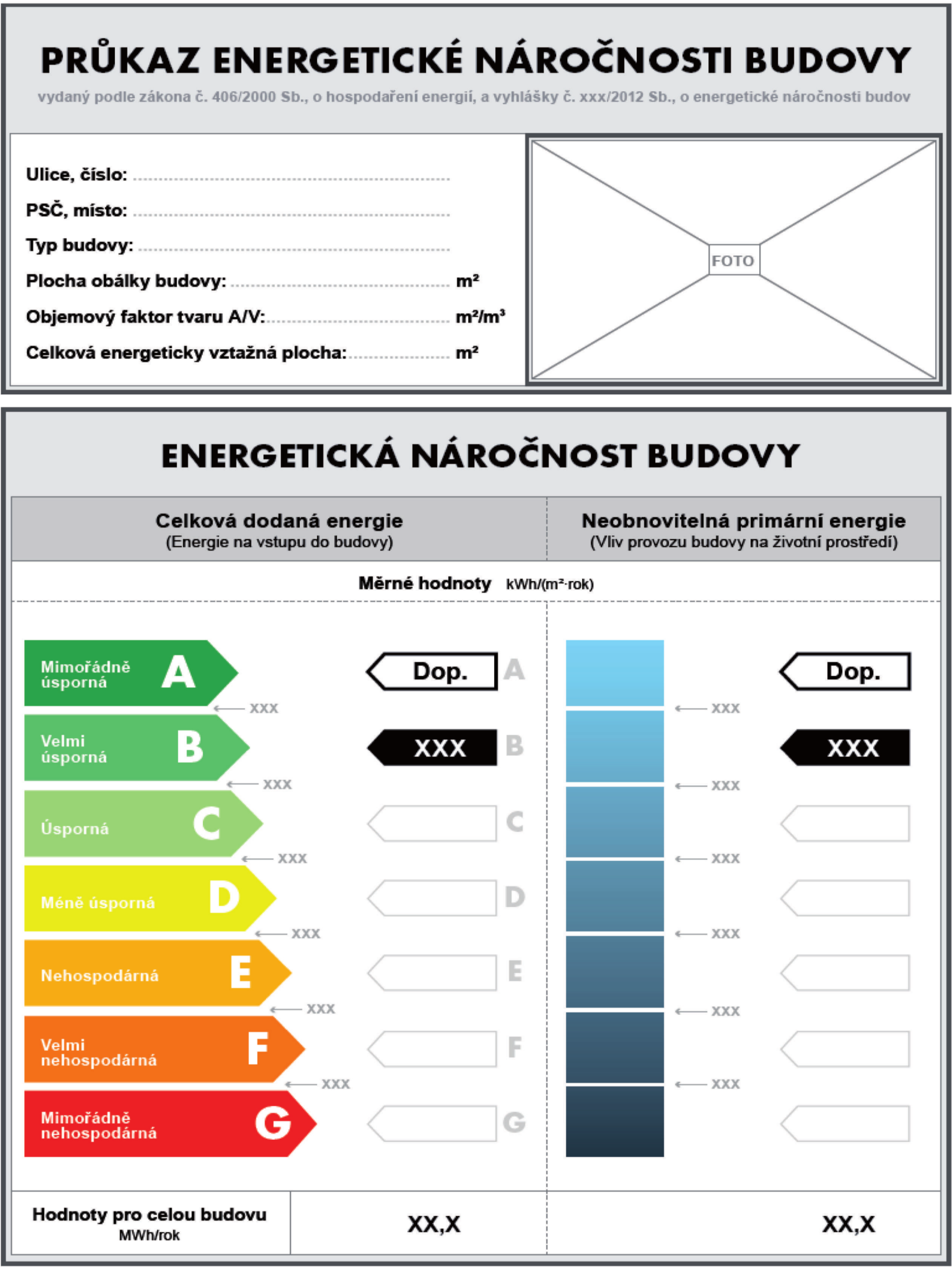 Certificate of energy performance of buildings in the Czech Republic